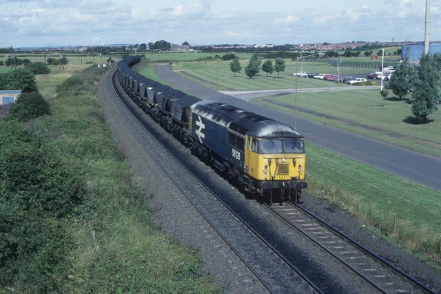 Coal for Blyth Power Station A train of coal from Widdrington is approaching Freemans crossing and will be stopped awaiting acceptance into Blyth Power station.This photo was taken from the road bridge looking west.The power station is long gone as are the class 56 locomotives from this area. Even the mgr wagons have been replaced by much bigger bogied coal carrying wagons. Cambois depot near here has also shut with the decline of coal.